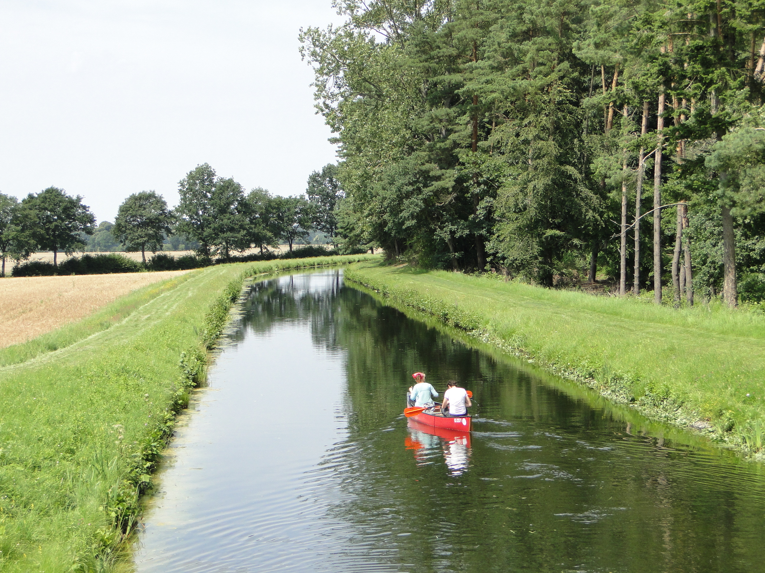 Schaalseekanal in/near Schmilau, disctrict Herzogtum Lauenburg, Schleswig-Holstein, Germany